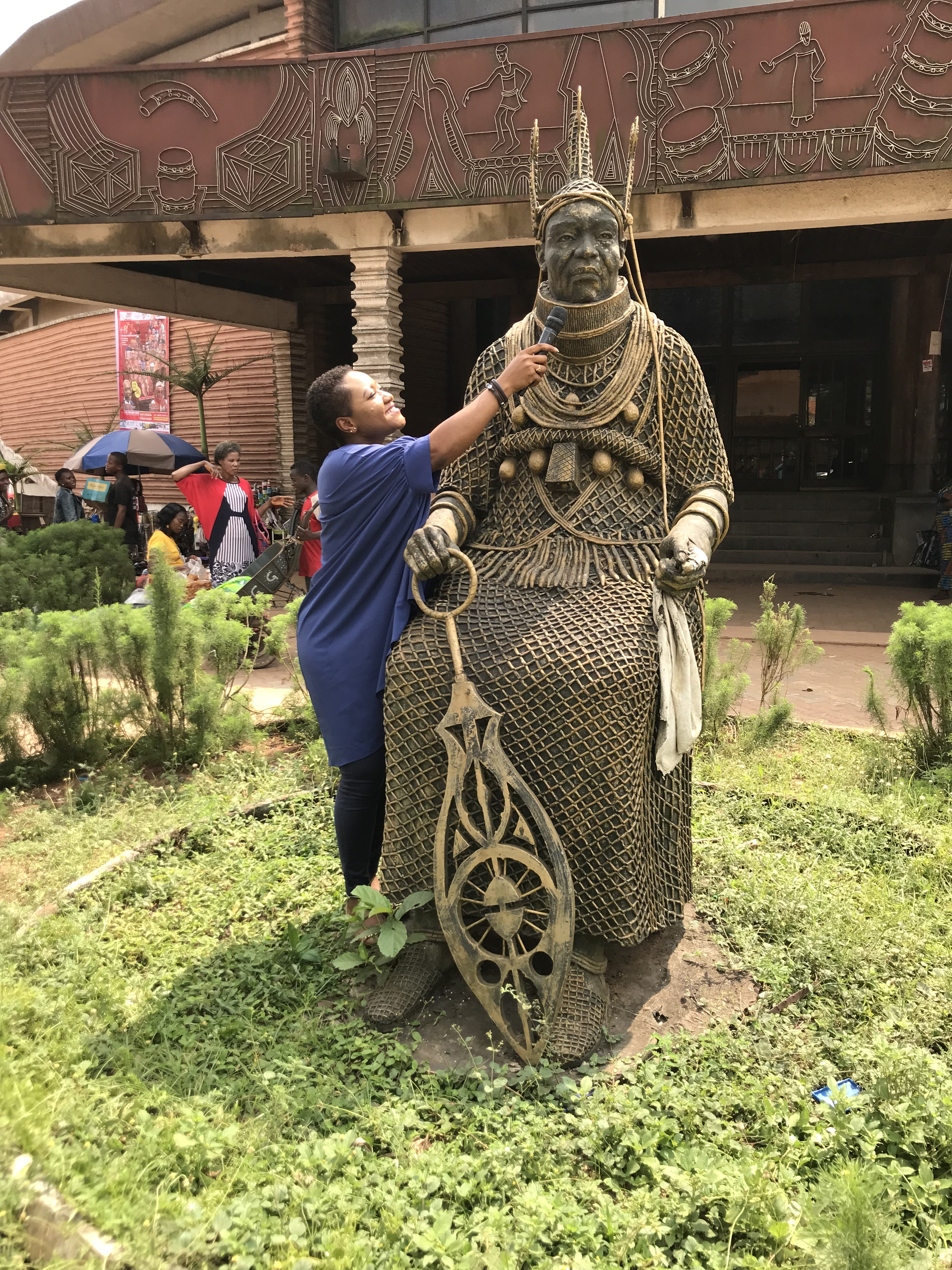 This statue resides opposite the Oba’s Palace in Benin, Efo State, Nigeria. It is a bronze statue. This is an image with the theme "Play" from: Nigeria